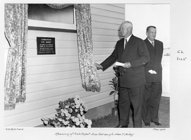 Opening of the Fish Depot, Scarborough, the Hon T Hiley. (Original photo caption makes reference to the State Public Relations Bureau)